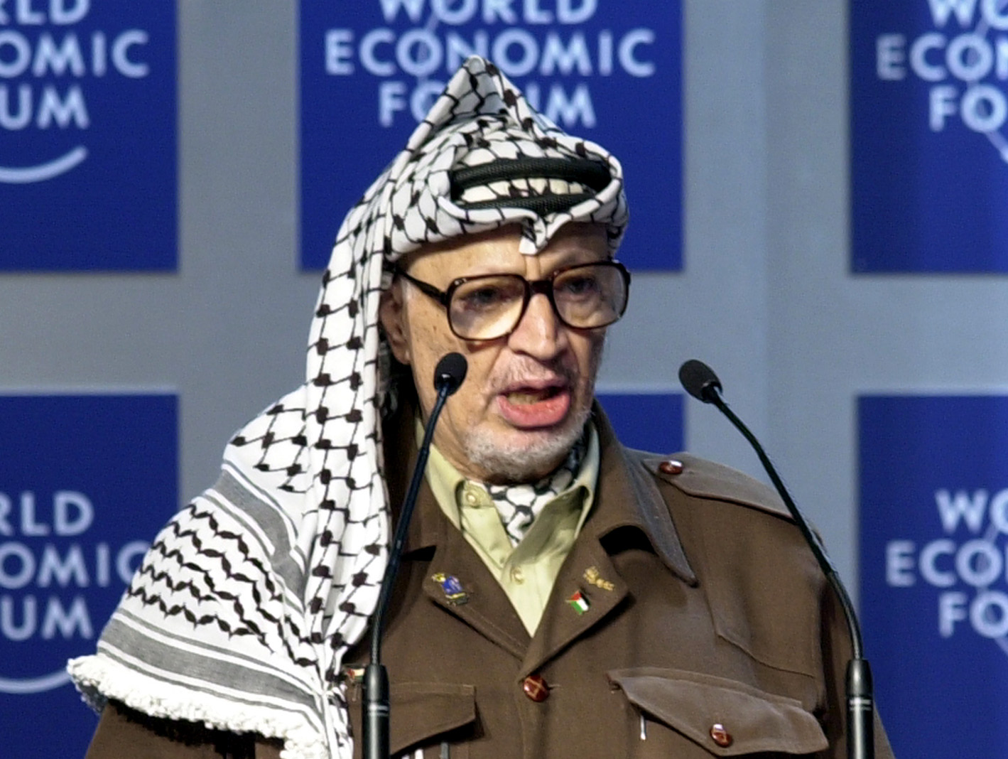 Yasser Arafat at 'From Peacemaking to Peacebuilding' at the Annual Meeting 2001 of the World Economic Forum (pleas avoid use it in an abusive manner)